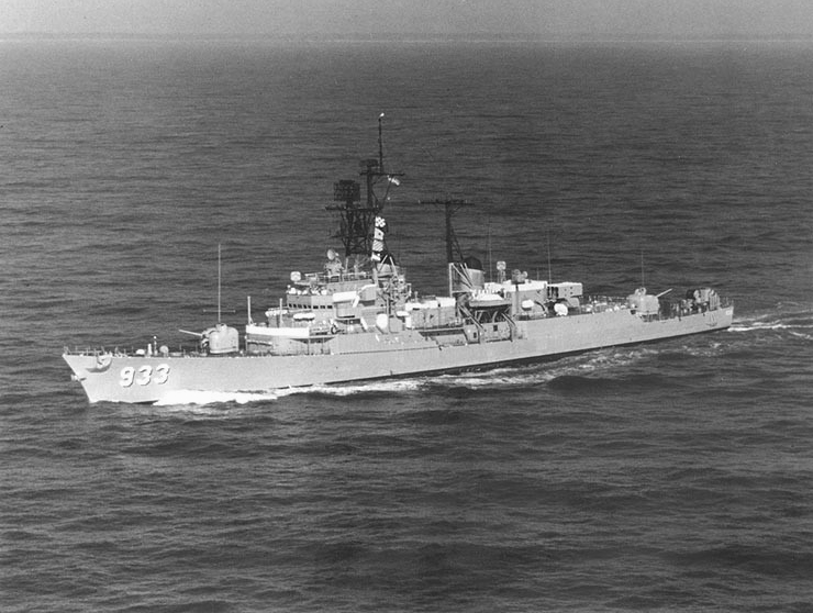 The U.S. Navy destroyer USS Barry (DD-933) underway at sea in December 1978.